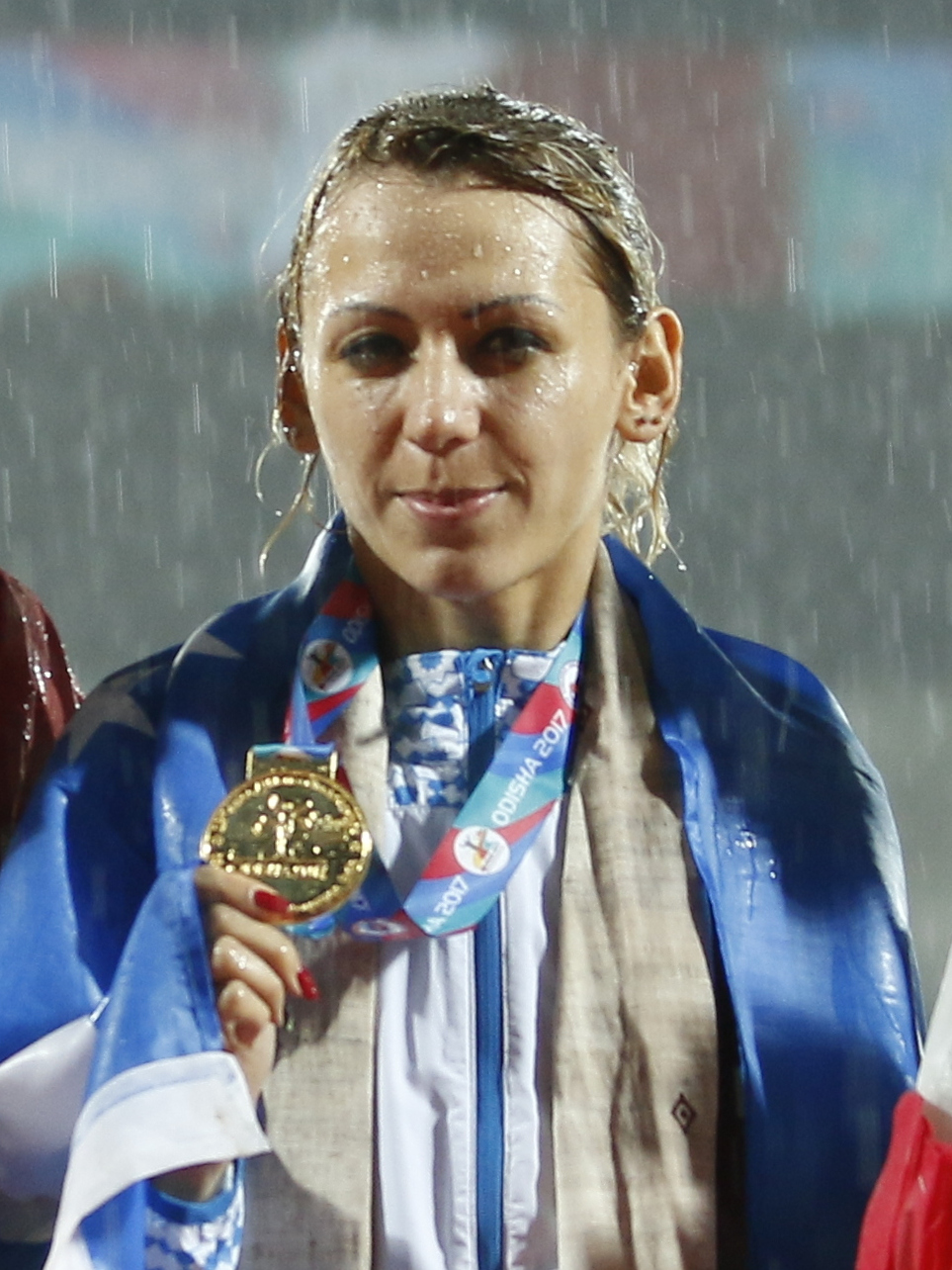 Athletes during 22nd Asian Athletics Championships in Bhubaneswar.